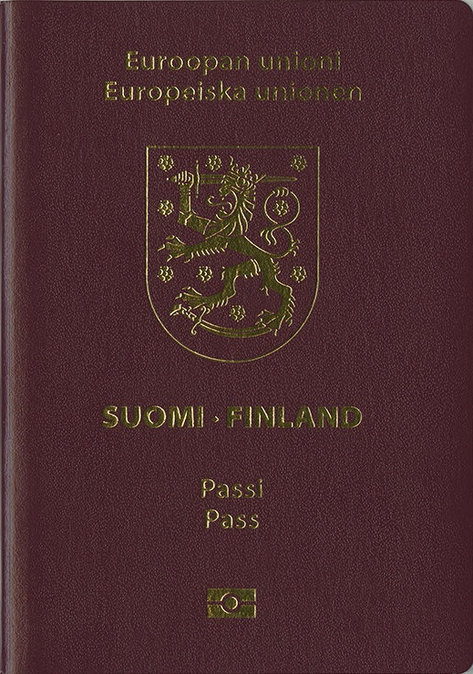 The Cover of a Finnish passport.